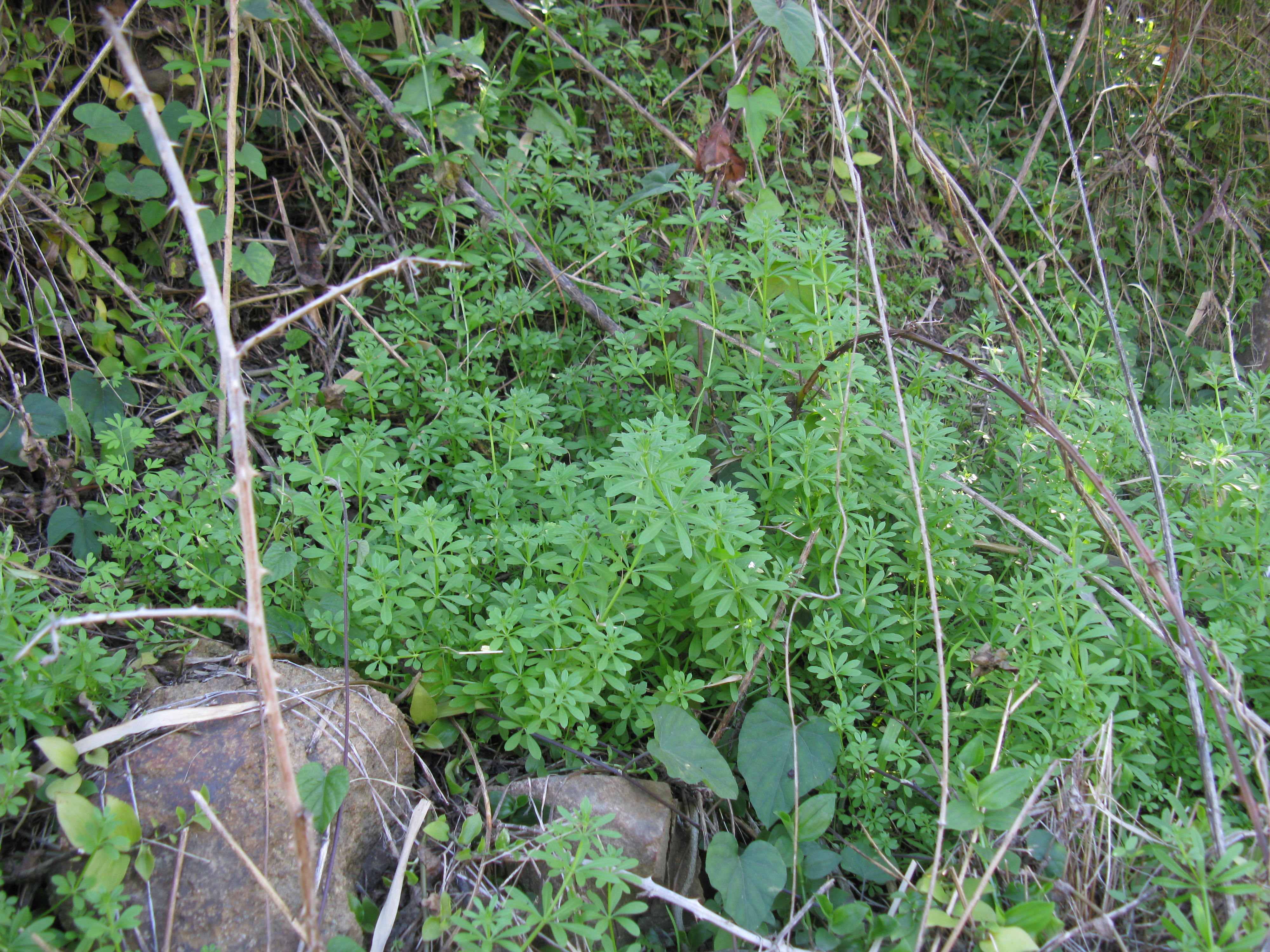 Introduced, cool-season, annual herb. Stems are more or less stout and to 1.5 m long, with retrorse prickles mainly along the angles and long thin hairs at the nodes. Leaves and stipules are in whorls of 6–9, sessile, simple, oblanceolate and 1–6 cm long; margins have recurved hairs, upper surface and midvein on lower surface have small hooked hairs. Flowerheads are mostly 2–7-flowered. Flowers are to 1 mm long and whitish. Fruit are 3–5 mm long and densely covered with hooked hairs. Flowering is from August to January. A native of Europe, it is a widespread weed.